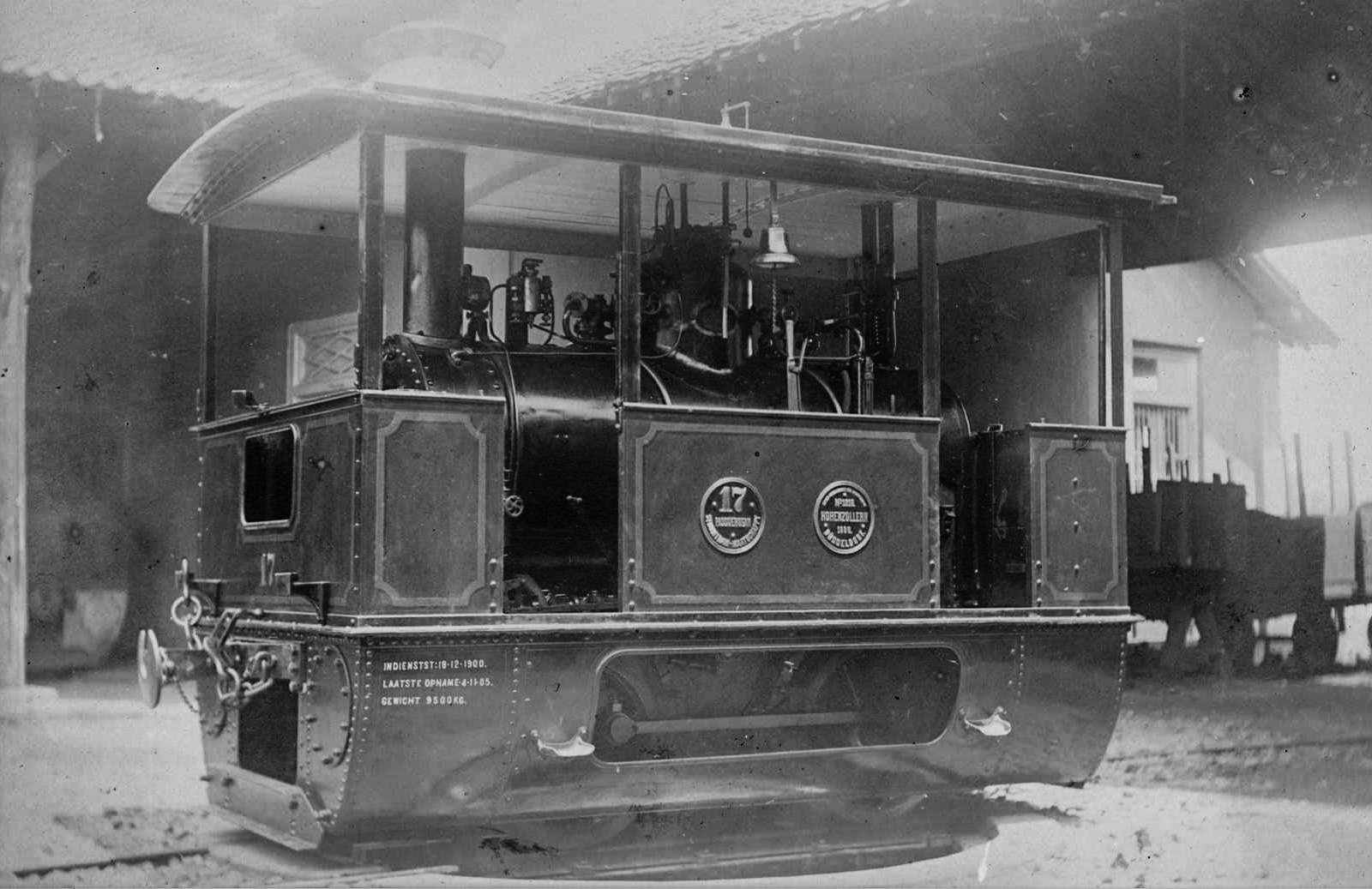 Pasoeroean Stoomtram Maatschappij